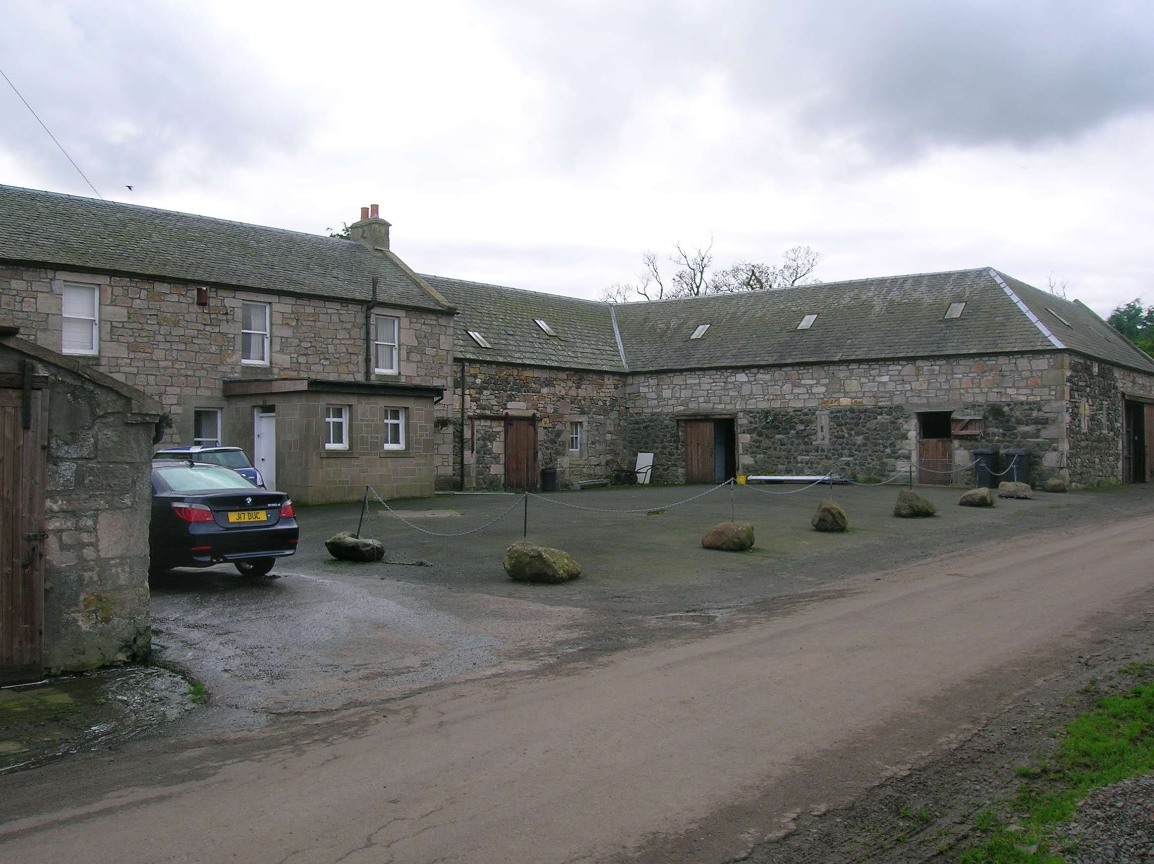 Floors farm, Kilmaurs, East Ayrshire, Scotland.